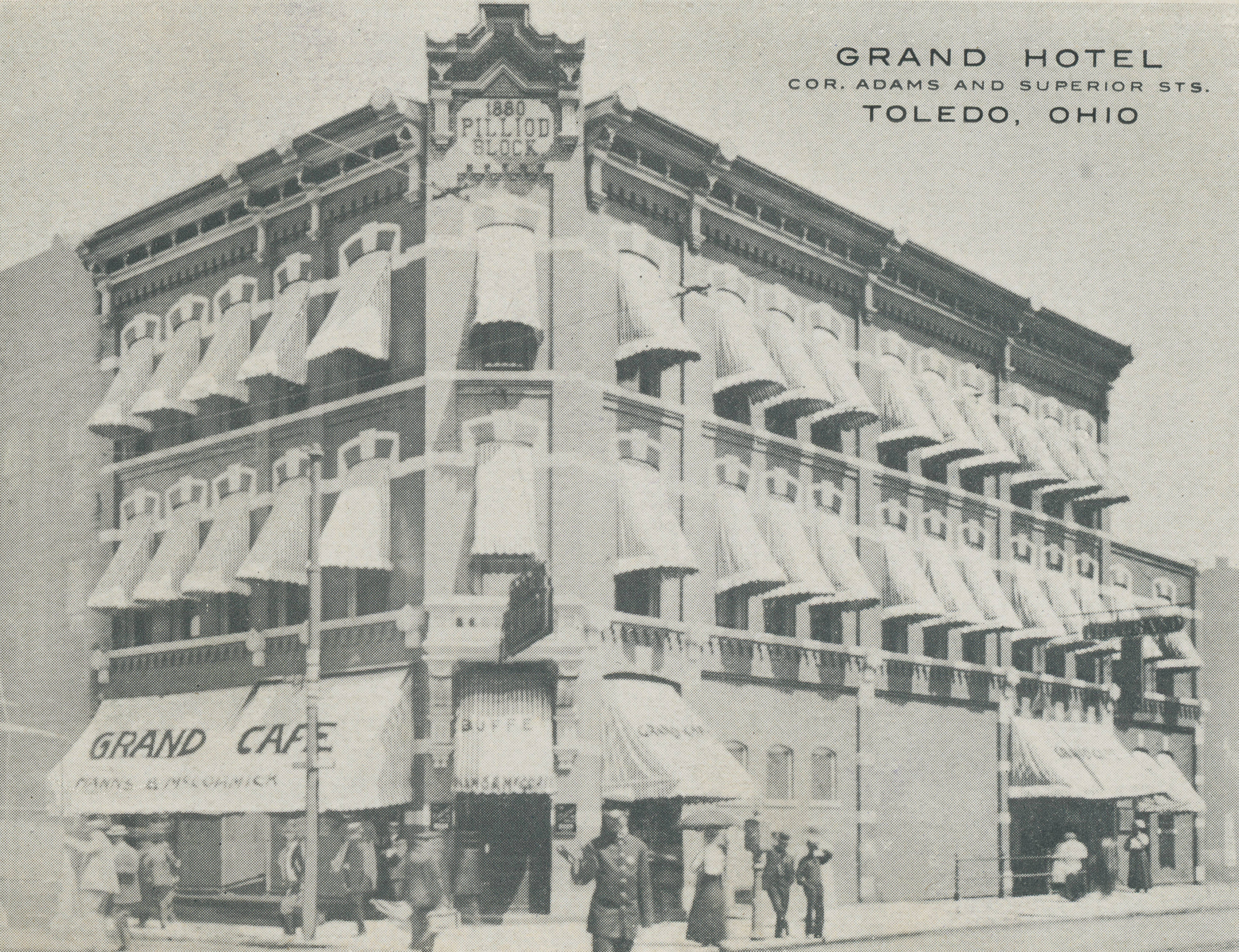 A postcard from the Ken Levin Toledo Postcard Collection, donated by Toledo resident, Ken Levin. The collection contains picture postcards about the Toledo area. Mr. Levin's collection was published by the Toledo Blade in a book entitled "You Will Do Better in Toledo: From Frogtown to Glass City", edited by Sandy and John R. Husman.